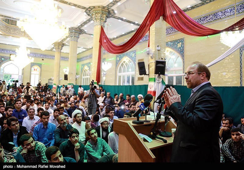 Ghalibaf in Qom